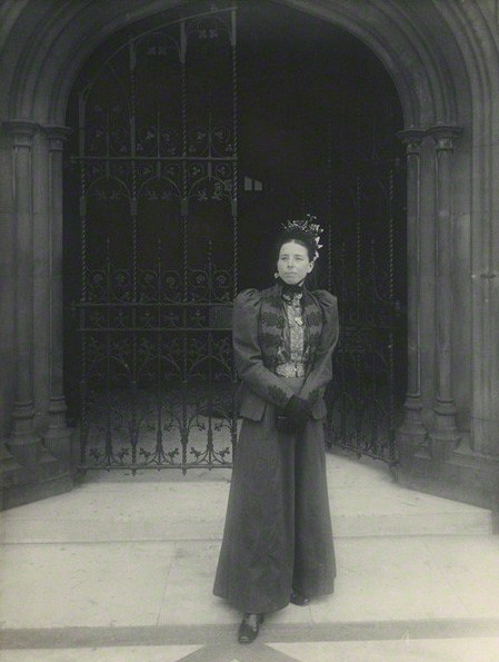 Lady Courtney of Penwith in 1898.